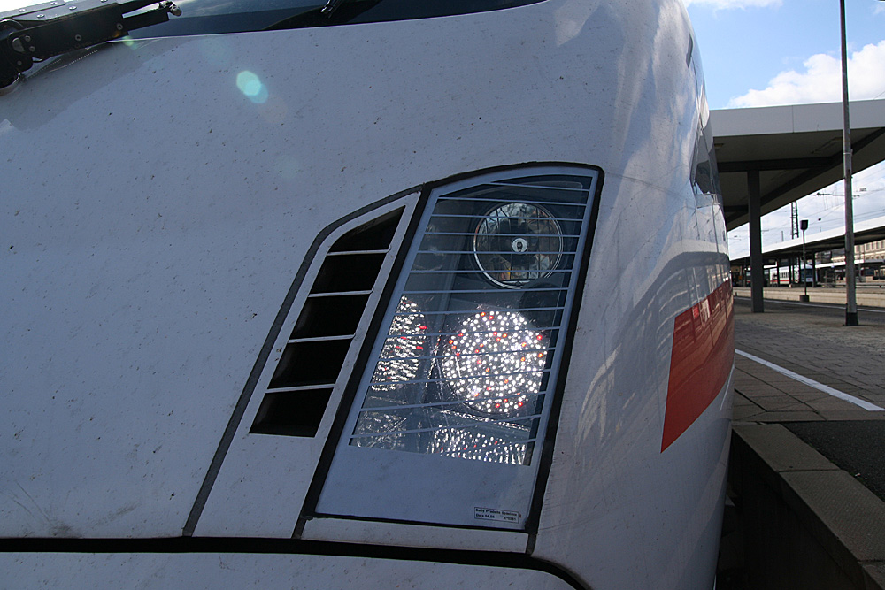 LED headlights and long-distance lights at the front of an InterCity Express train with tilting technology (ICE T), 2nd series